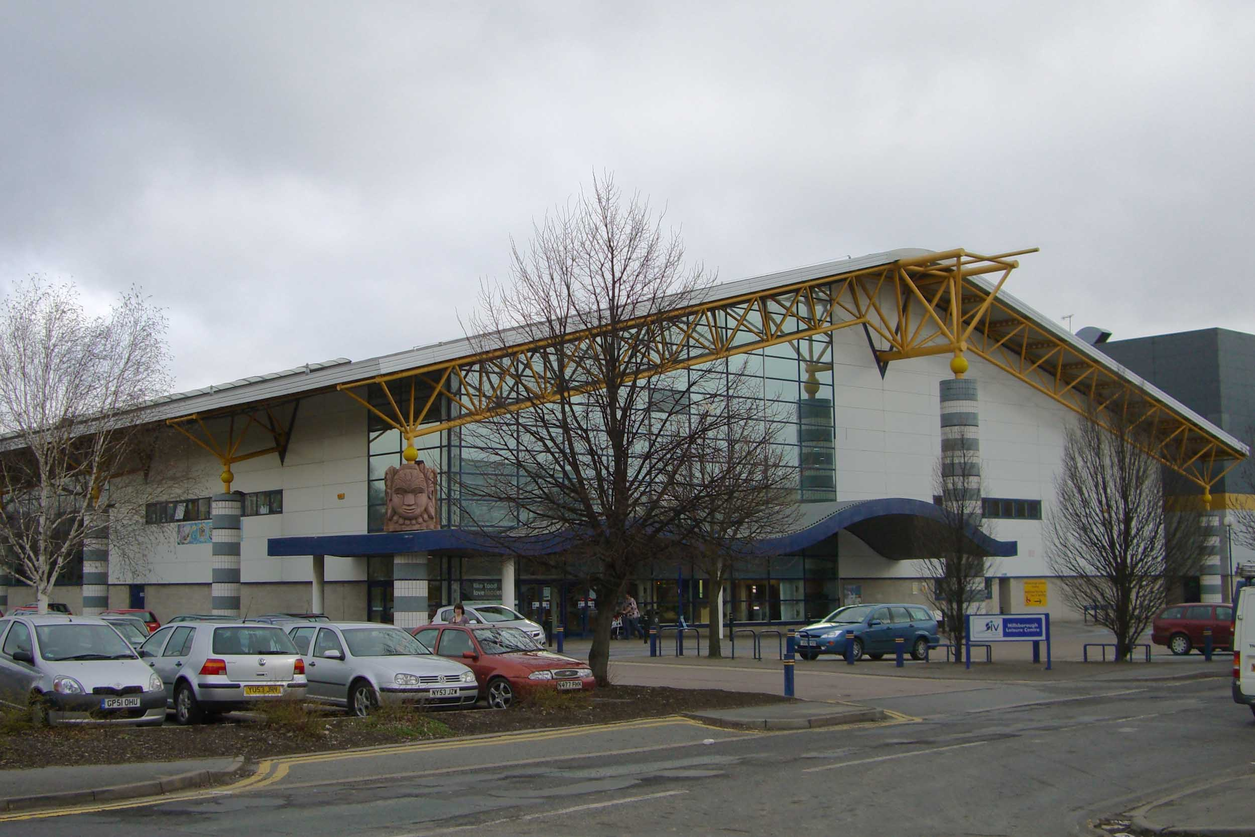 Hillsborough Leisure Centre in Owlerton, Sheffield